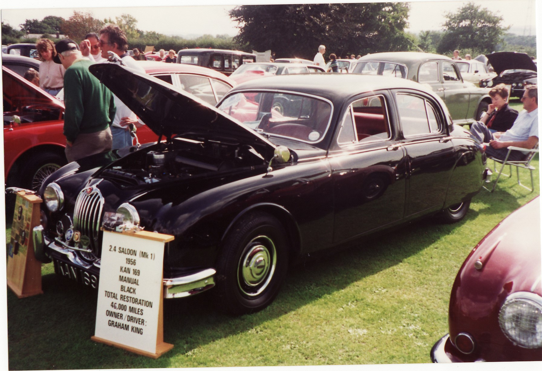 Jaguar 2.4 Saloon (Mk.1). This car made a regular appearance as a police car in episodes of the Endeavour TV series.